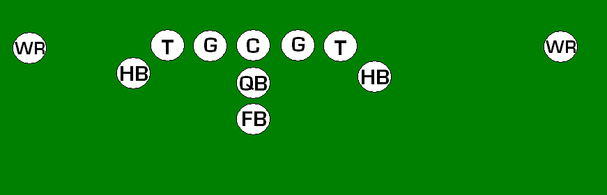 Updated version of flexbone set with 7 men on the line of scrimmage.